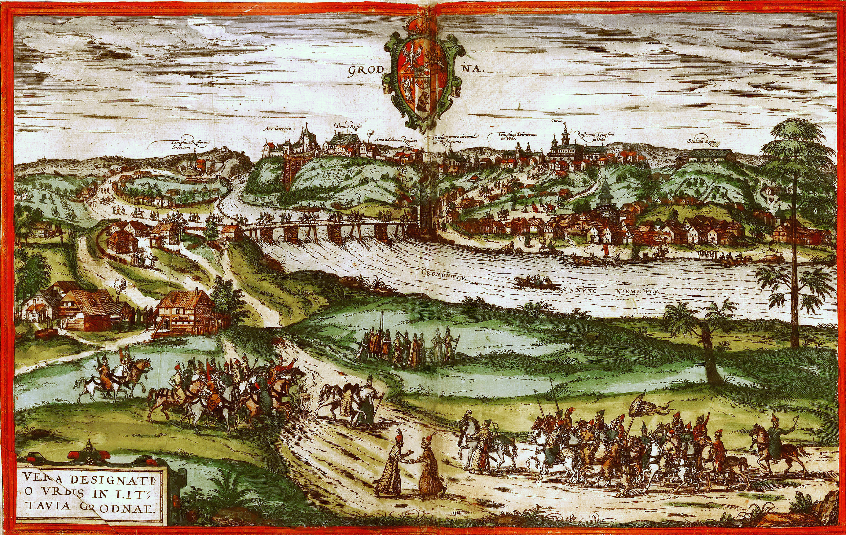 View of Hrodna (Grodno) in 1575